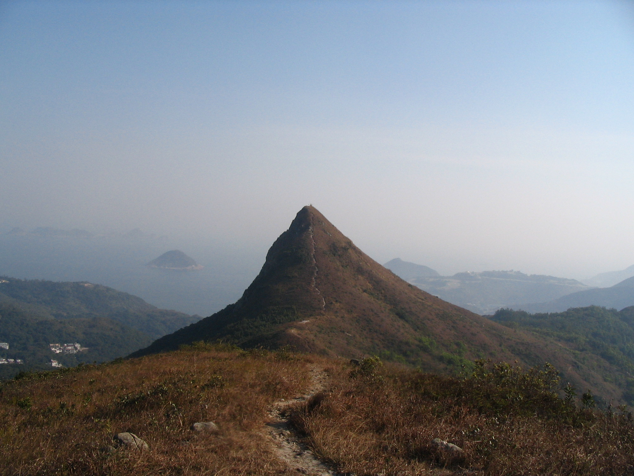 Photo of High Junk Peak